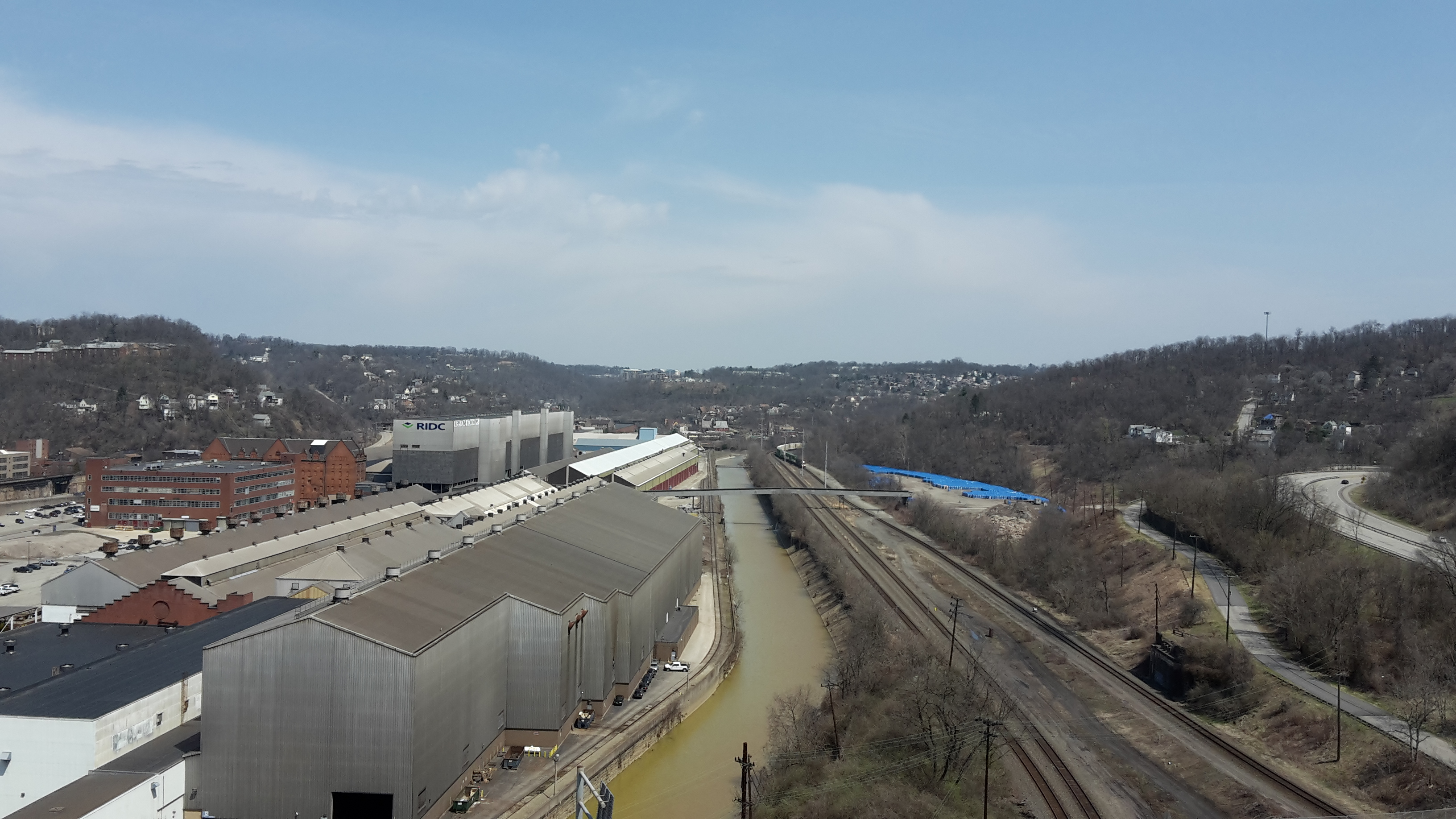 Turtle Creek, a Monongahela River tributary, as seen from the George Westinghouse Bridge in East Pittsburgh, PA